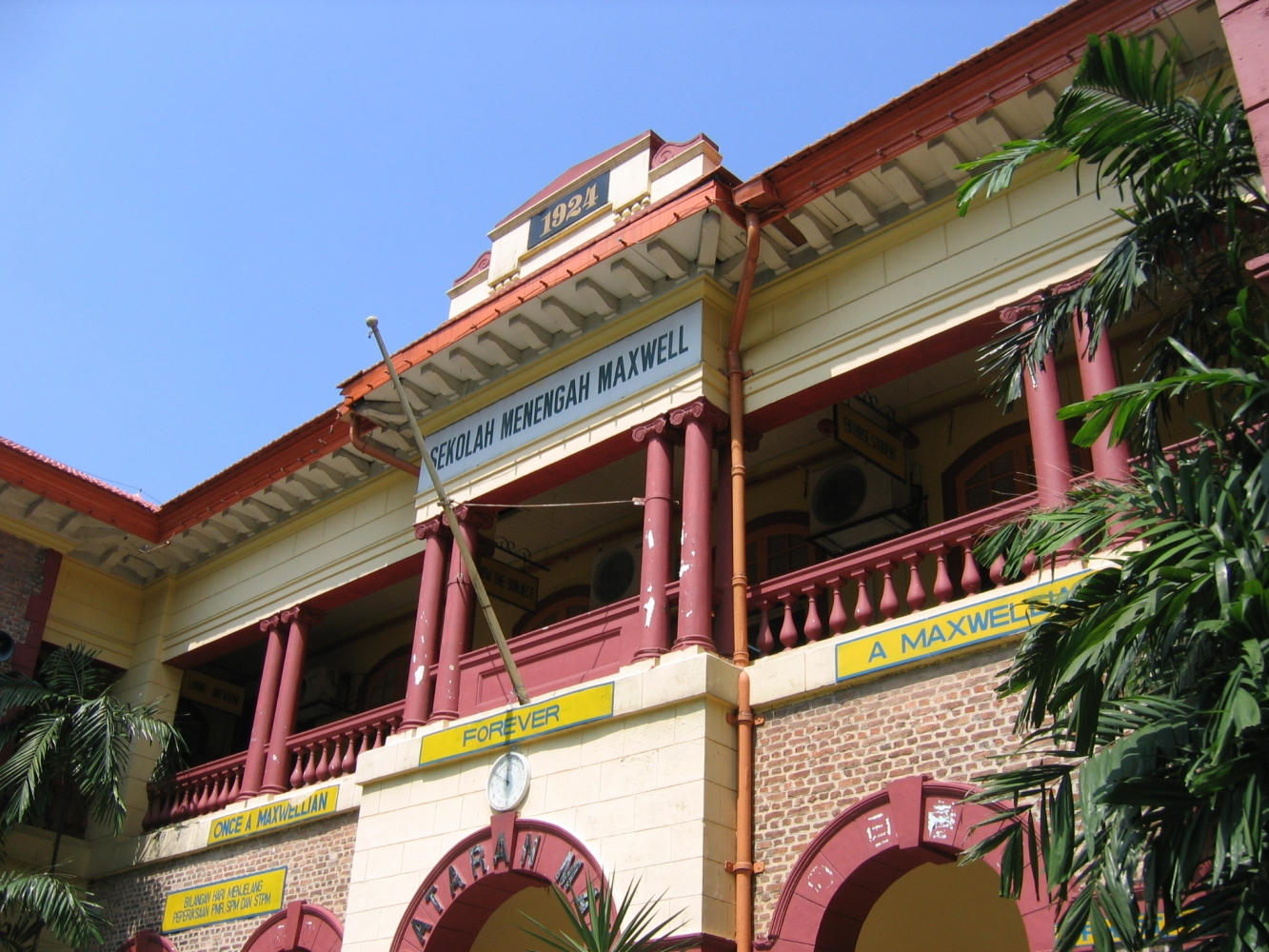 Maxwell School, 2013